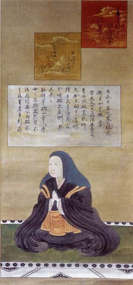 Wife of Takeda Nobutora, by Takeda Nobukado, Chozenji, Kofu, Yamanashi, Japan